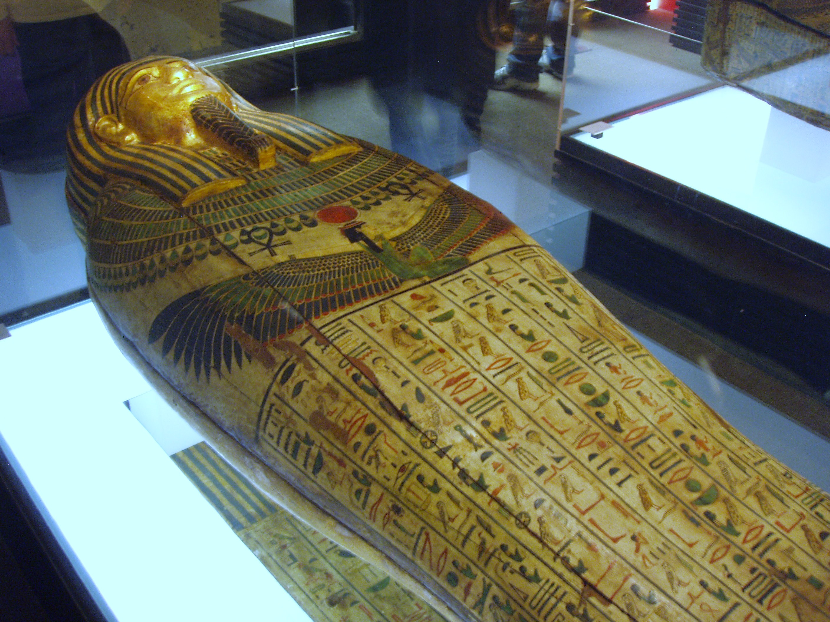 An Ancient Egyptian sarcophagus from the 26th Dynasty (Late Period). According to the inscriptions, it belonged to a woman named Taremetchenbastet (Ta-re(m)et-n-Bastet, which means "Bastet's woman"), daughter of Ptahirdis. On the upper side it is written the chapter 72 of the Book of the Dead. At the lower side, chapters 640–643a of the Pyramid Texts.